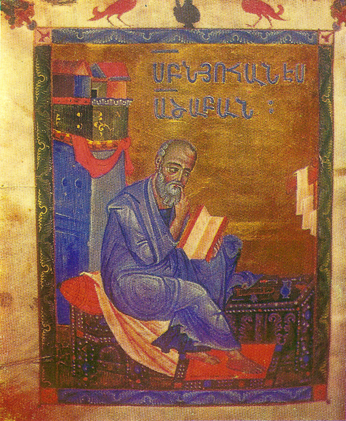 An Armenian illuminated manuscript of John the Apostle, by Toros Roslin. Original manuscript found at the Matenadaran, manuscript № 10675